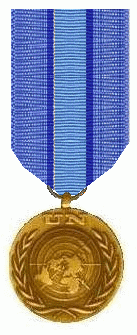 UNOCA Medal for UN Peacemission